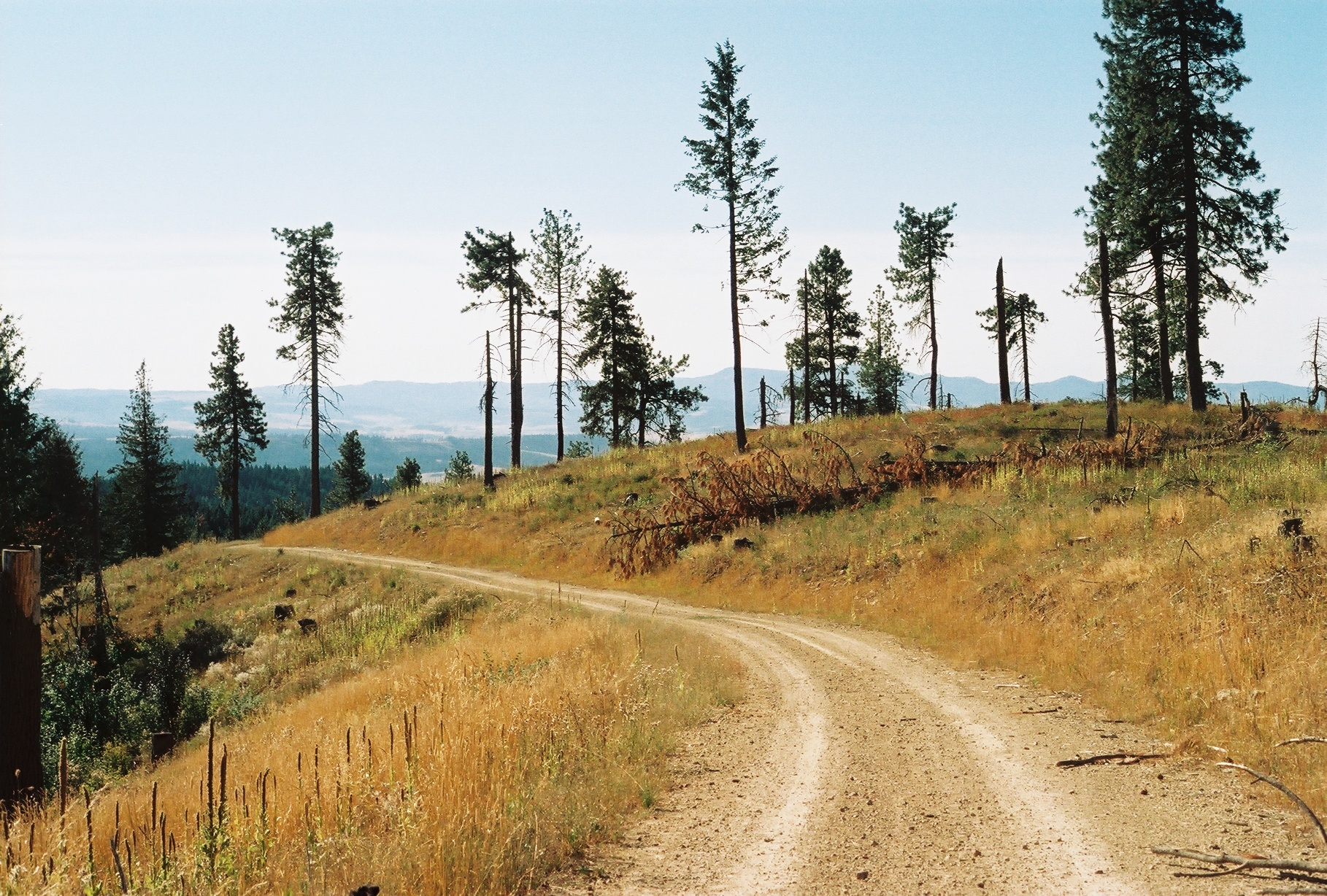 Looking to west on Skyline Drive path in McCroskey State Park. A trail in Idaho.